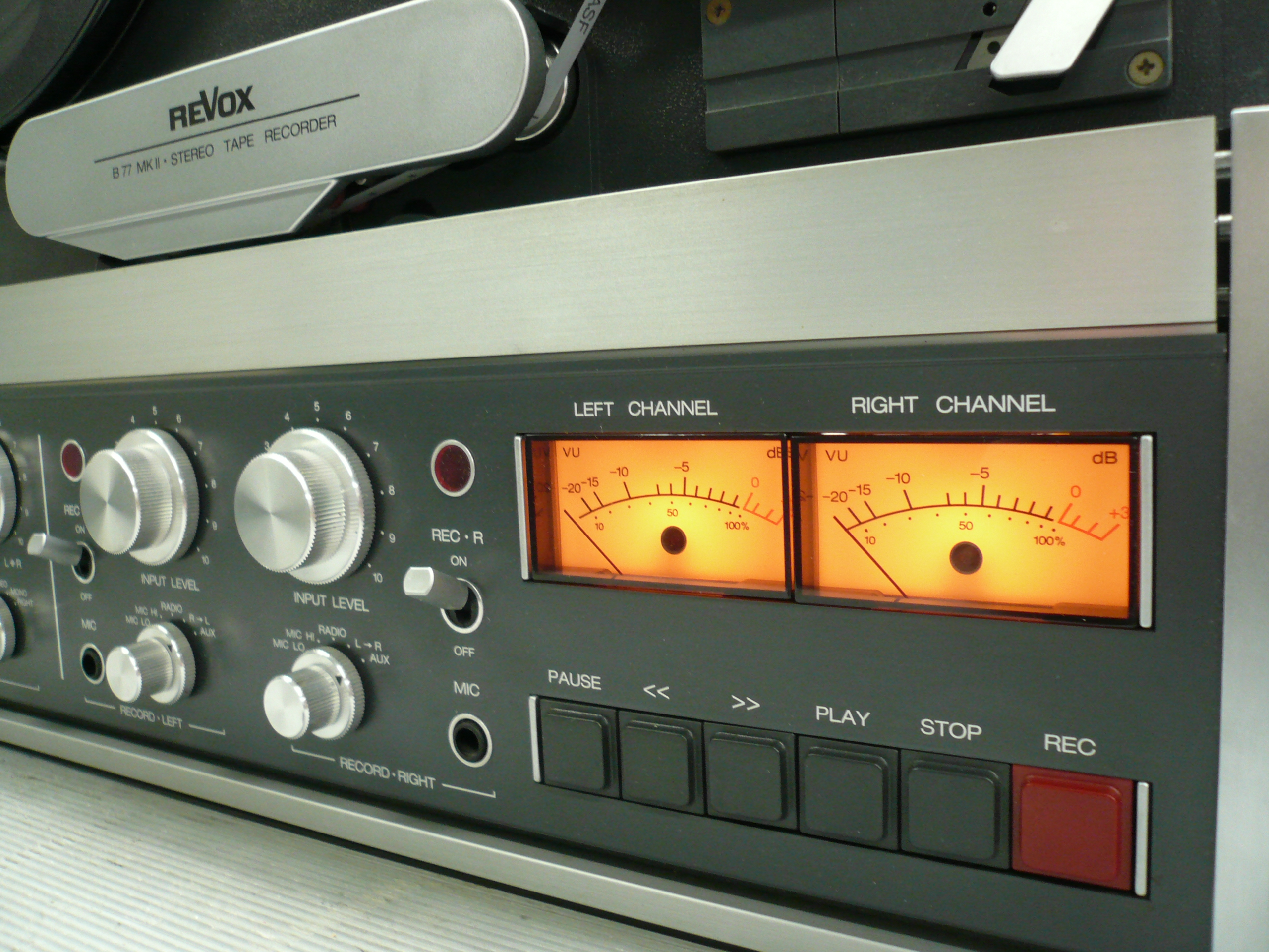 Revox B77 MK II. Tape splicing block - visible in top right - was standard equipment.